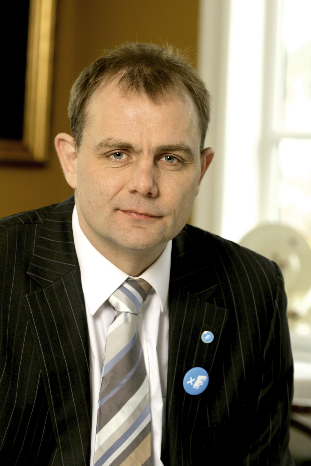 Sigurjón Þórðarson, former MP for the Icelandic Liberal Party